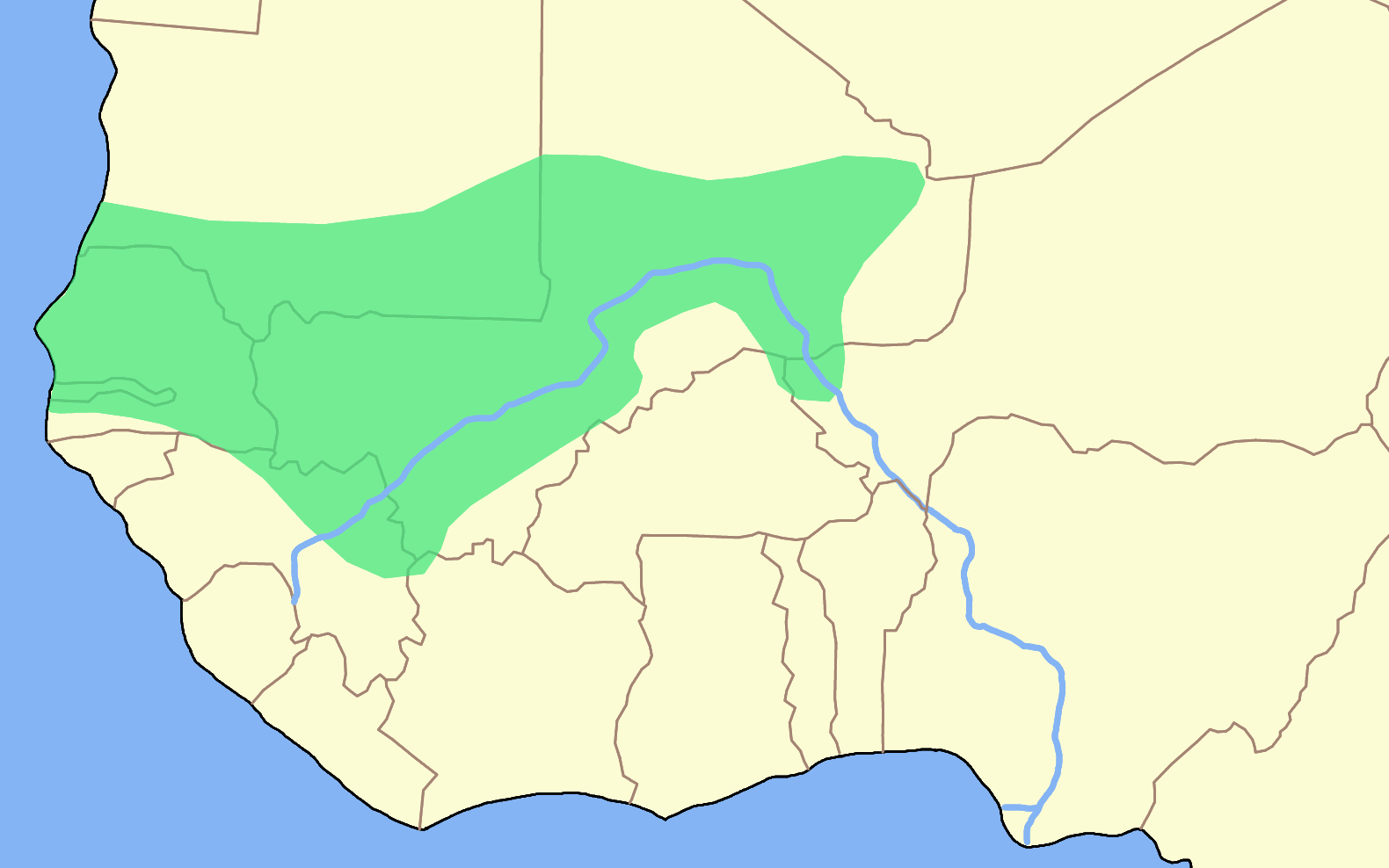 Map of the Mali Empire made by User:Astrokey44 in Corel Painter IX